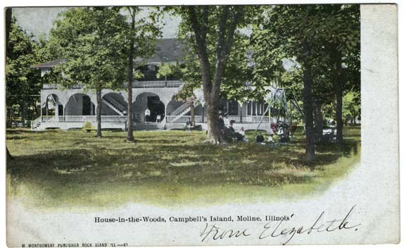 House-In-The-Woods Inn, Campbell's Island, 1907